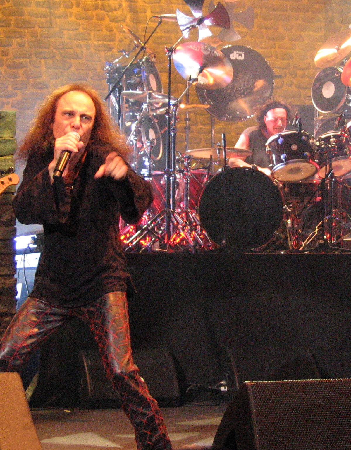 Ronnie James Dio from Heaven and Hell during concert in Katowice Spodek 20.06.2007